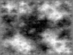 This is a plasma fractal generated by the Diamond-Square algorithm. Generated by User:Paxinum.